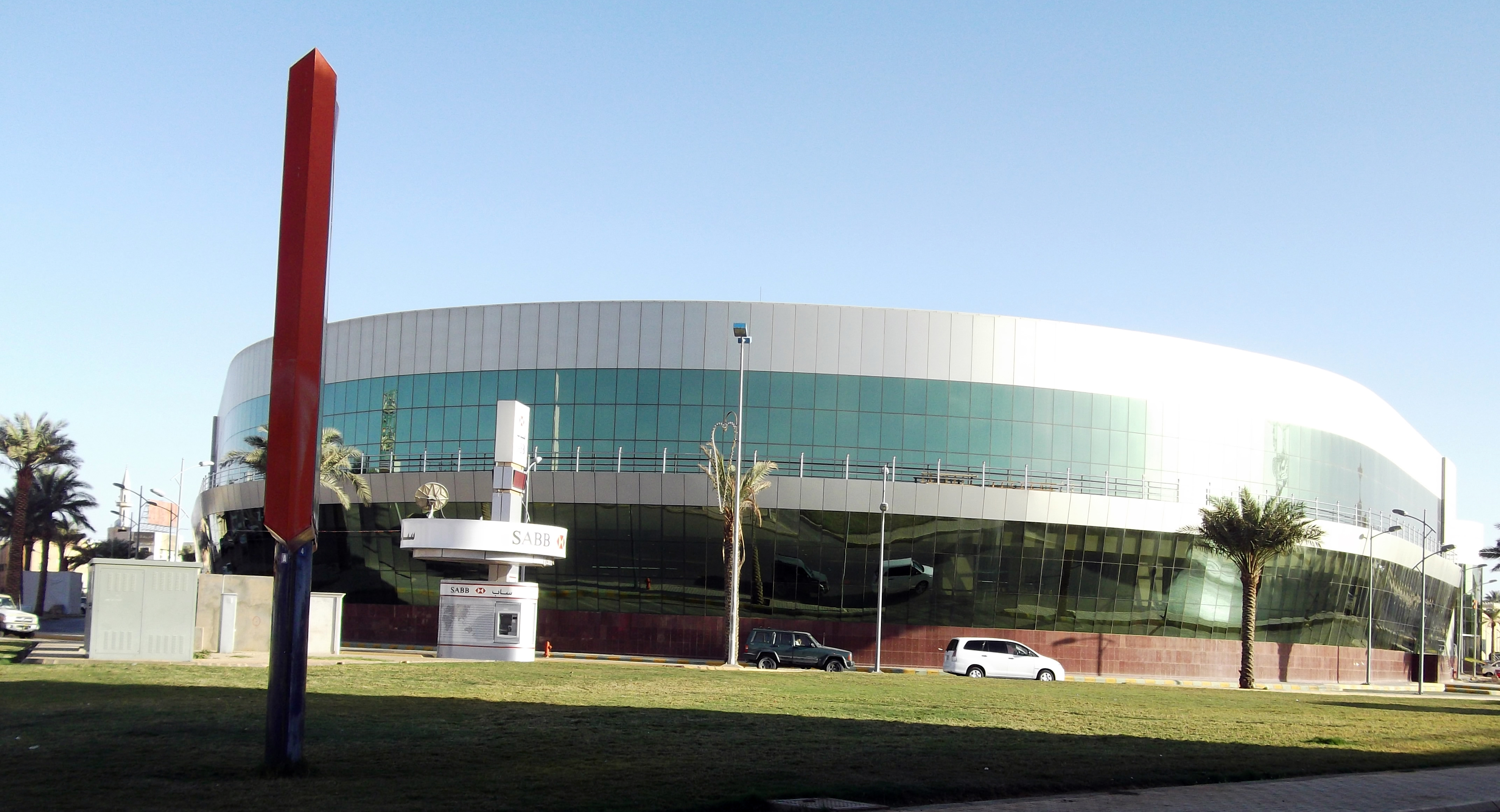 Western side of the Onaizah Mall